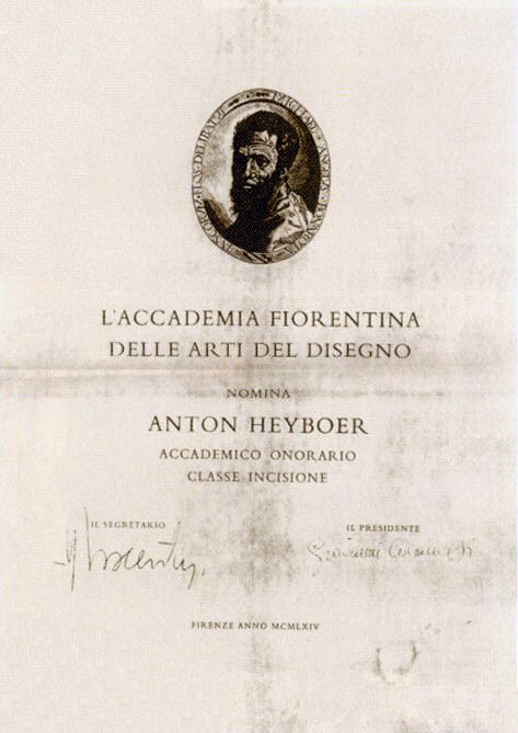 charter of university of Florence